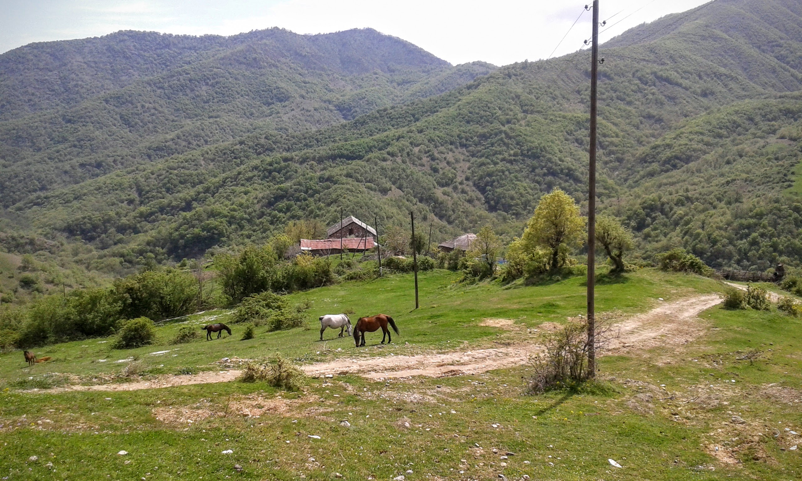 View of the village Tisovica, Macedonia